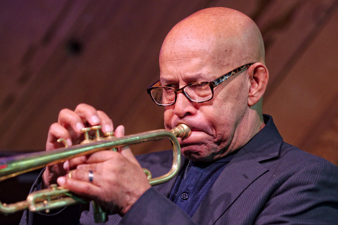 This is a picture of trumpeter Eddie Henderson in performance in 2017.